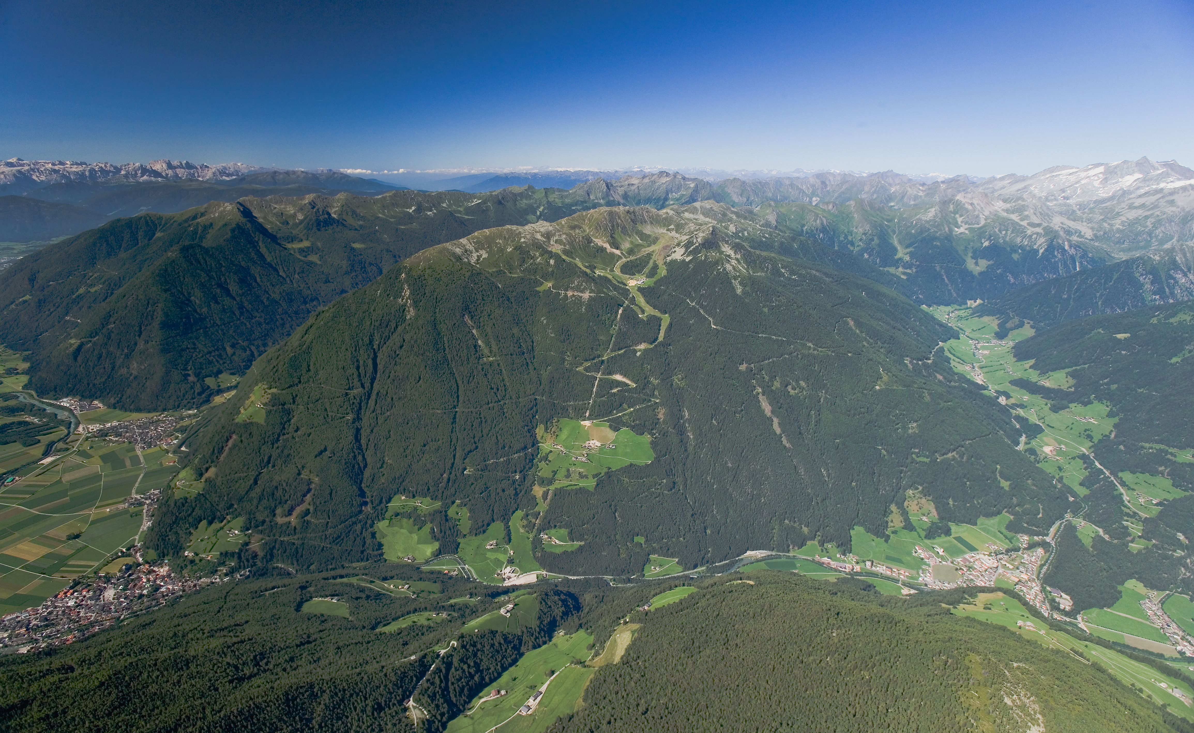 The mountain Speikboden in Südtirol, Zillertaler Alpen